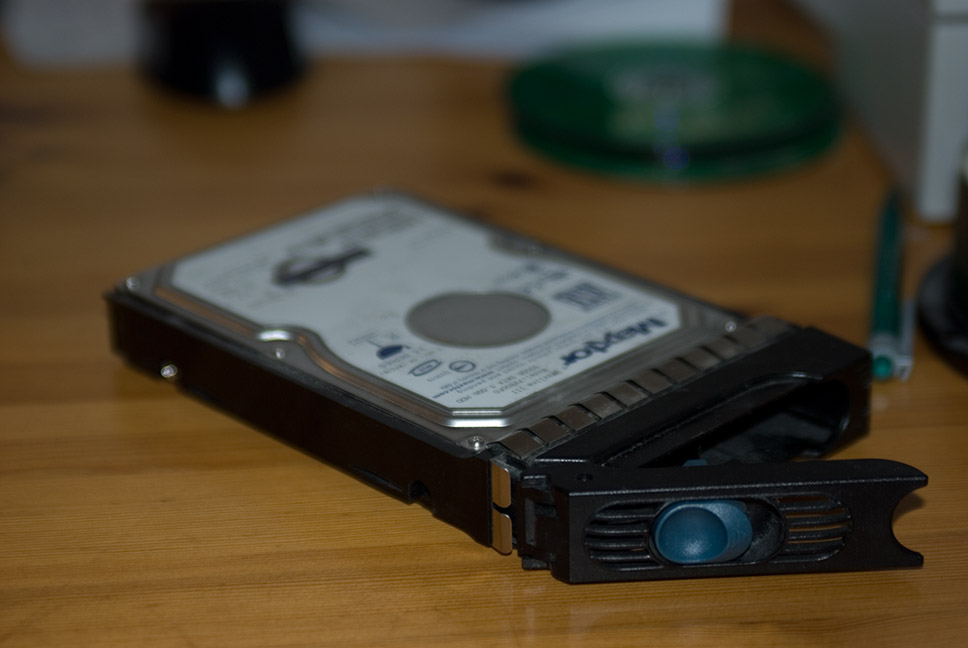 A single disk of a RAID array, outside the array. This mechanism supports removal of disks while the system keeps running.